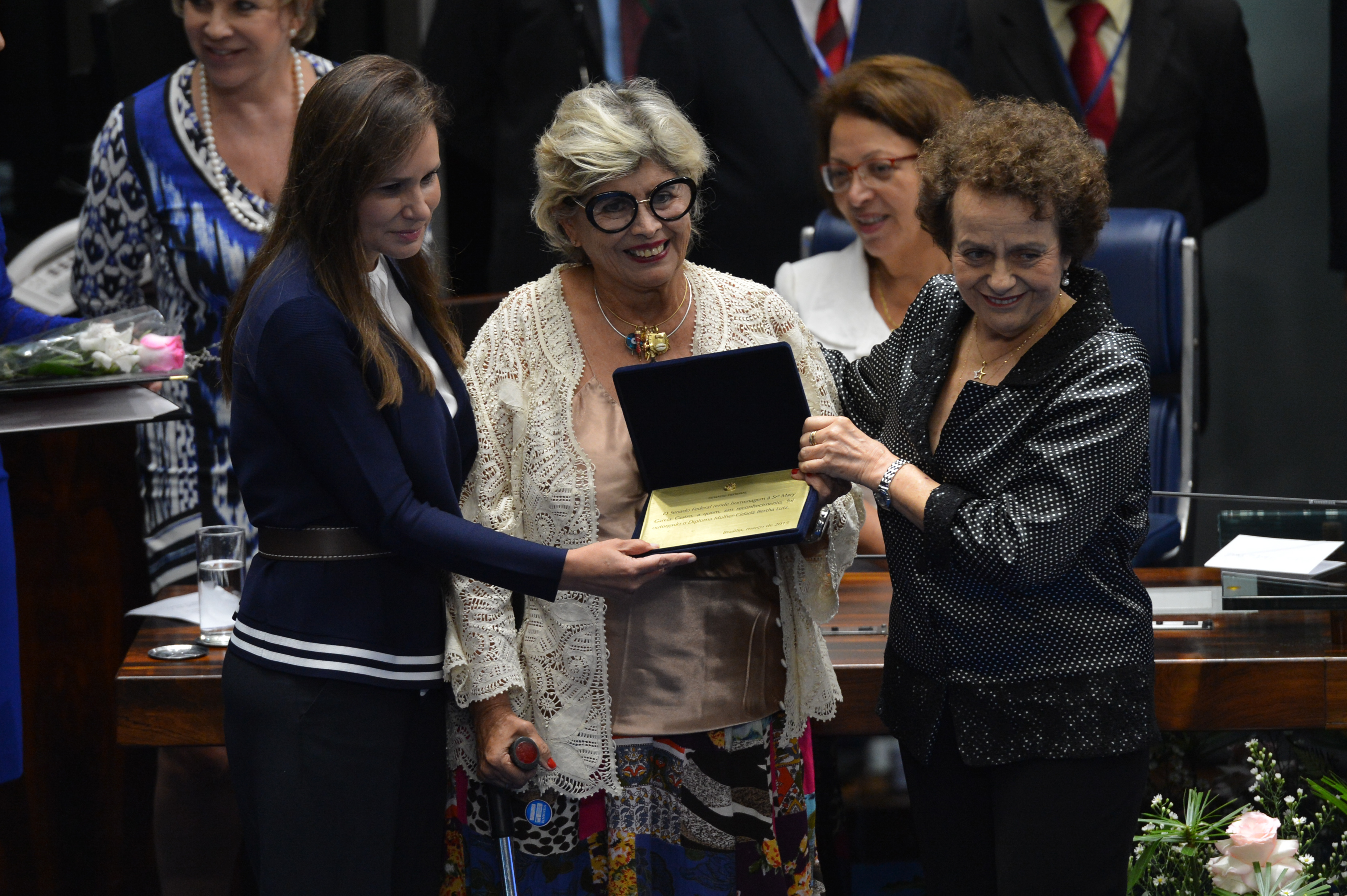 Mary Garcia Castro receives the Bertha Lutz Prize in 2015. Photo by Fabio Rodrigues Pozzebom/Agência Brasil CCBY3.0